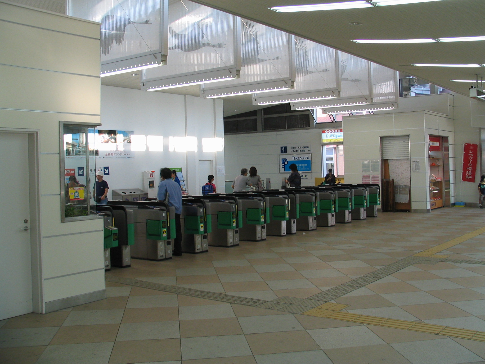 相模鉄道鶴ヶ峰駅改札口 Tsurugamine Station`s ticket gate. (Sagami Railway Main Line).